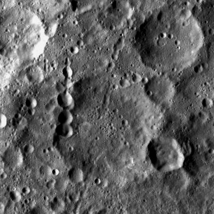 Eroded Love at center, Prager at upper right. Note prominent unnamed catena radial to 450 km-distant Tsiolkovskiy